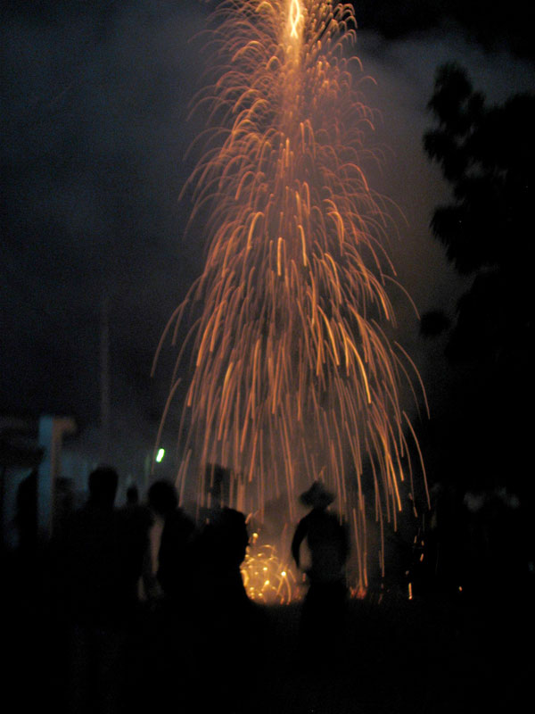 my photos from the parrandas